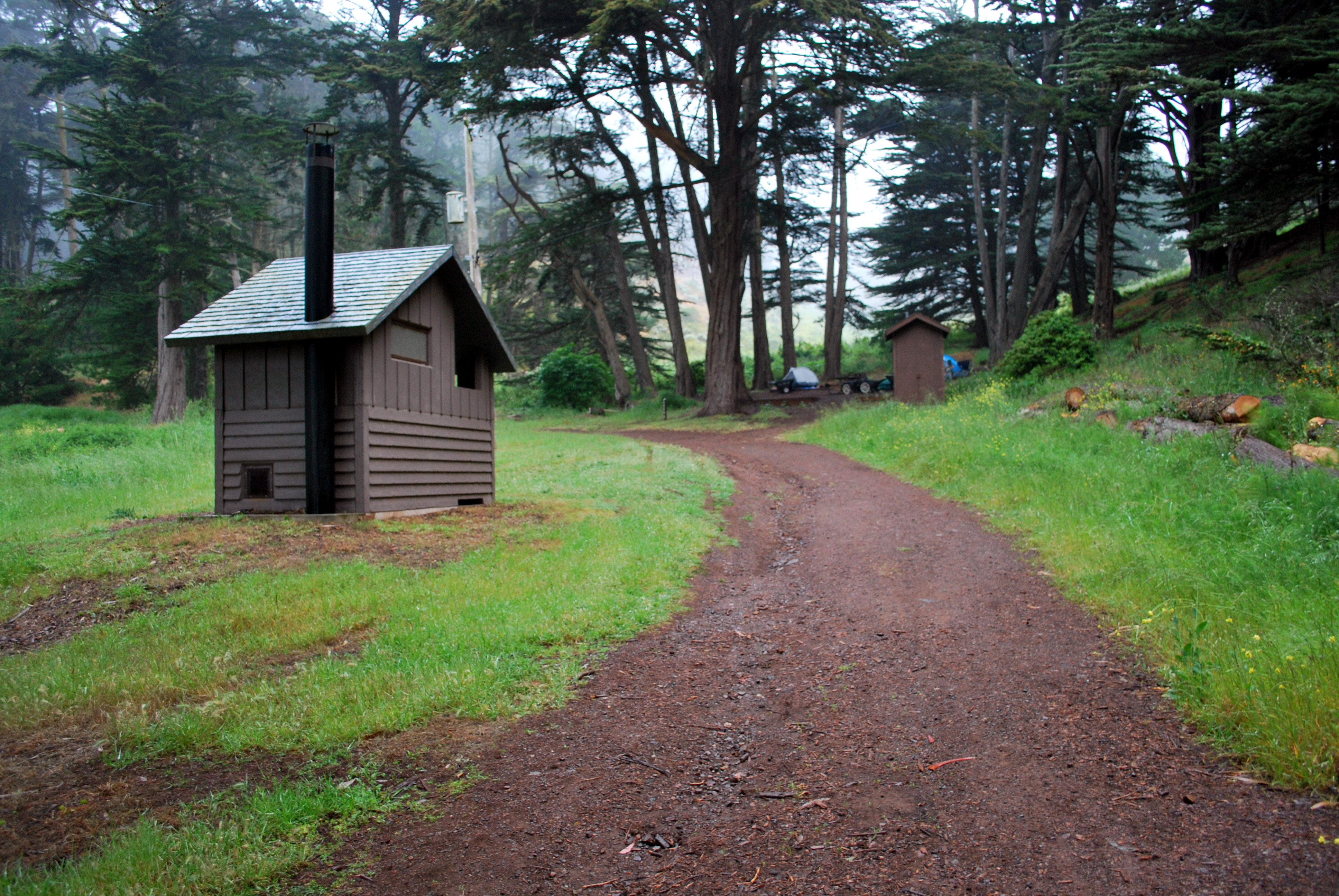 A picture of campsite number 4 taken from the road that leads down to Battery Kirby and the beach. While the Golden Gate does not usually get rain during the summer, the coastal fog dripping off the cypress trees above rains down during the night. Prepare for rain at any time of the year!